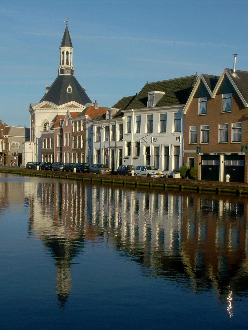 Facades of Leidschendam (Netherlands) are reflected in the Vliet canal